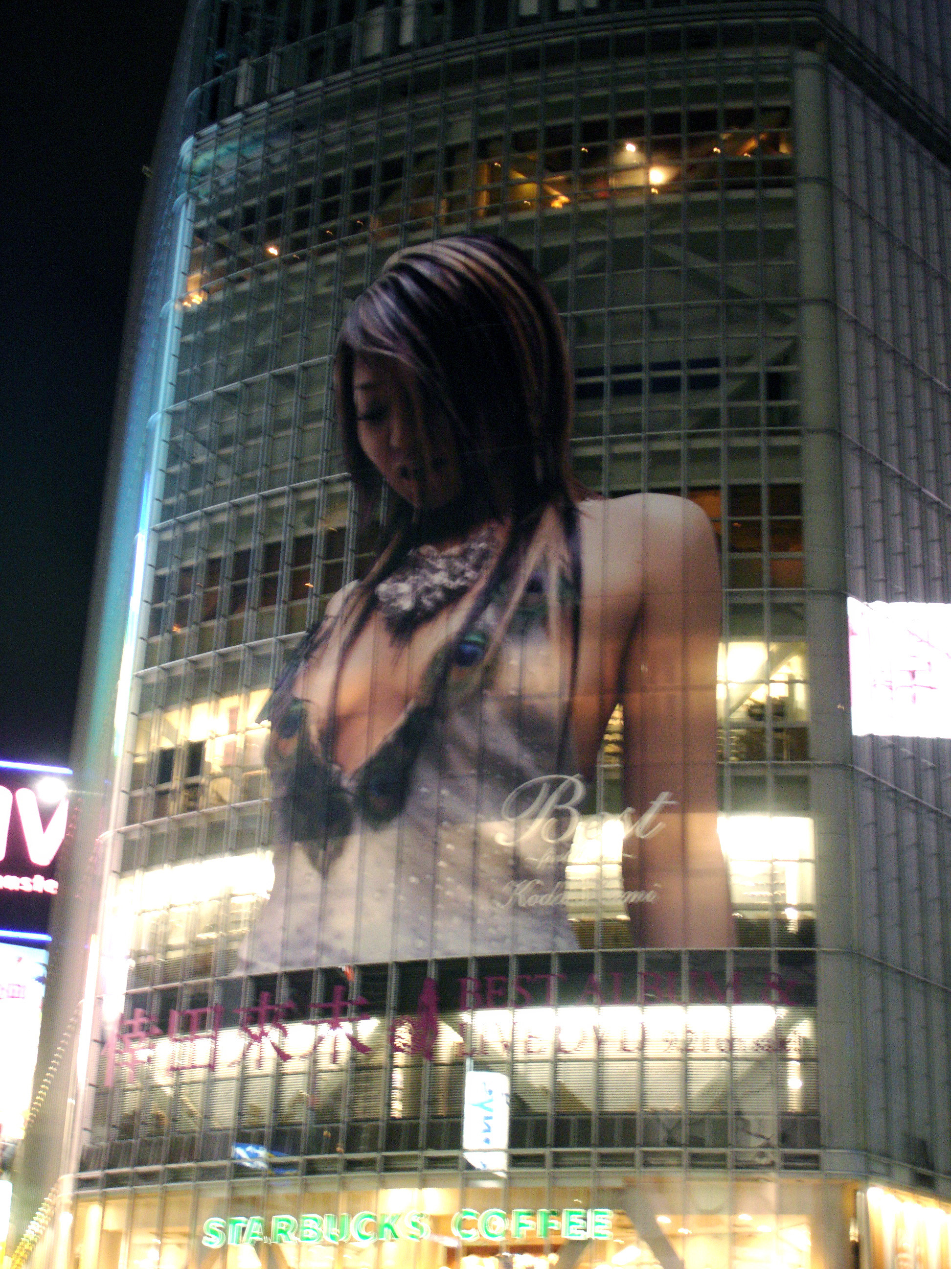 Kumi Koda celebrating her new greatest hits album